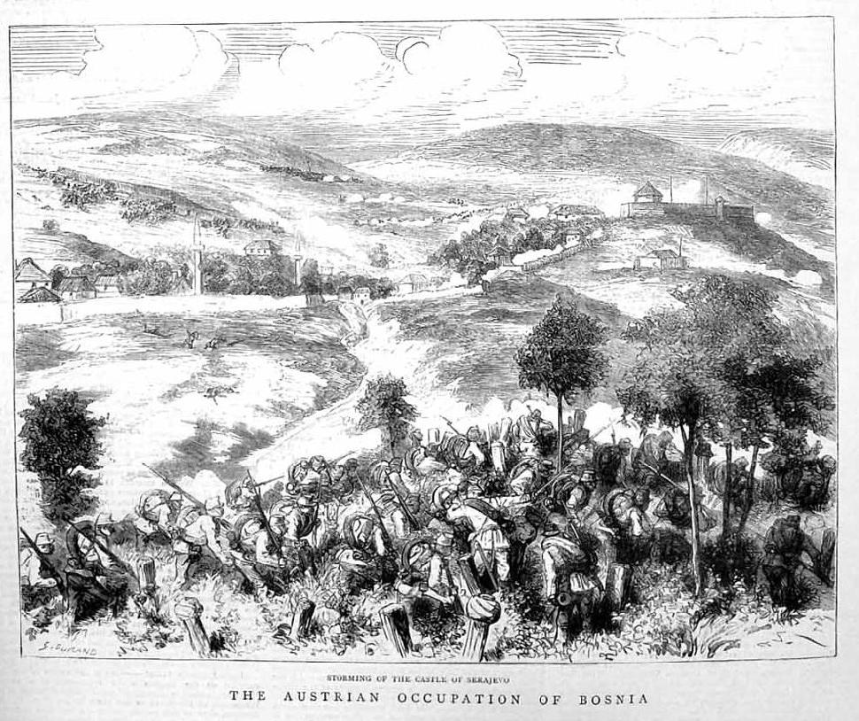 The Austrian infantry attacking the castle of Sarajevo in 1878